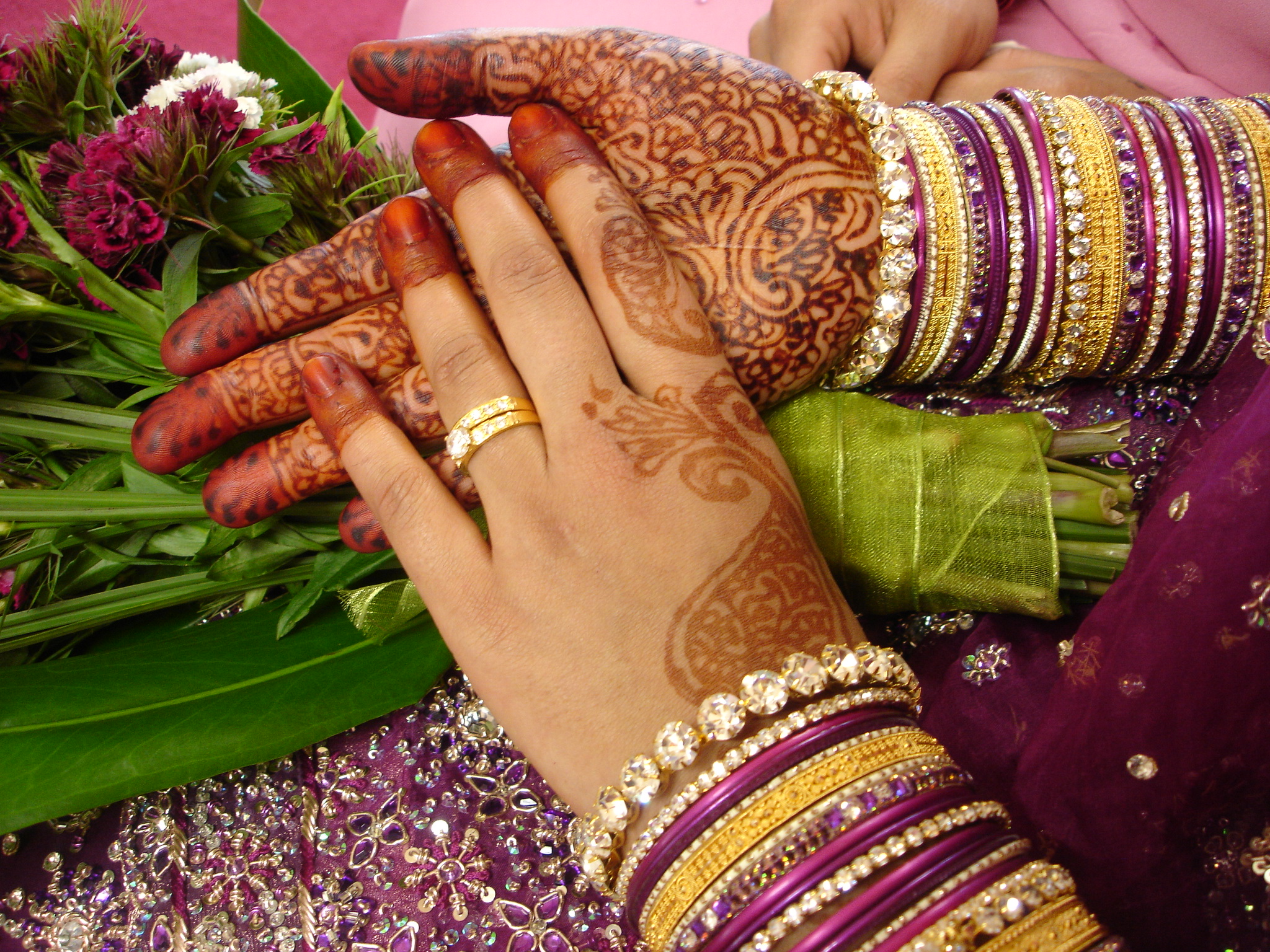 A bride's hands decorated with henna and bangles, over a bunch of flowers, in London, England.